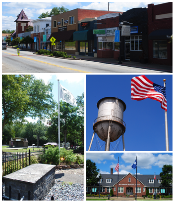 Photos I took around Williamston, SC and placed in a montage.